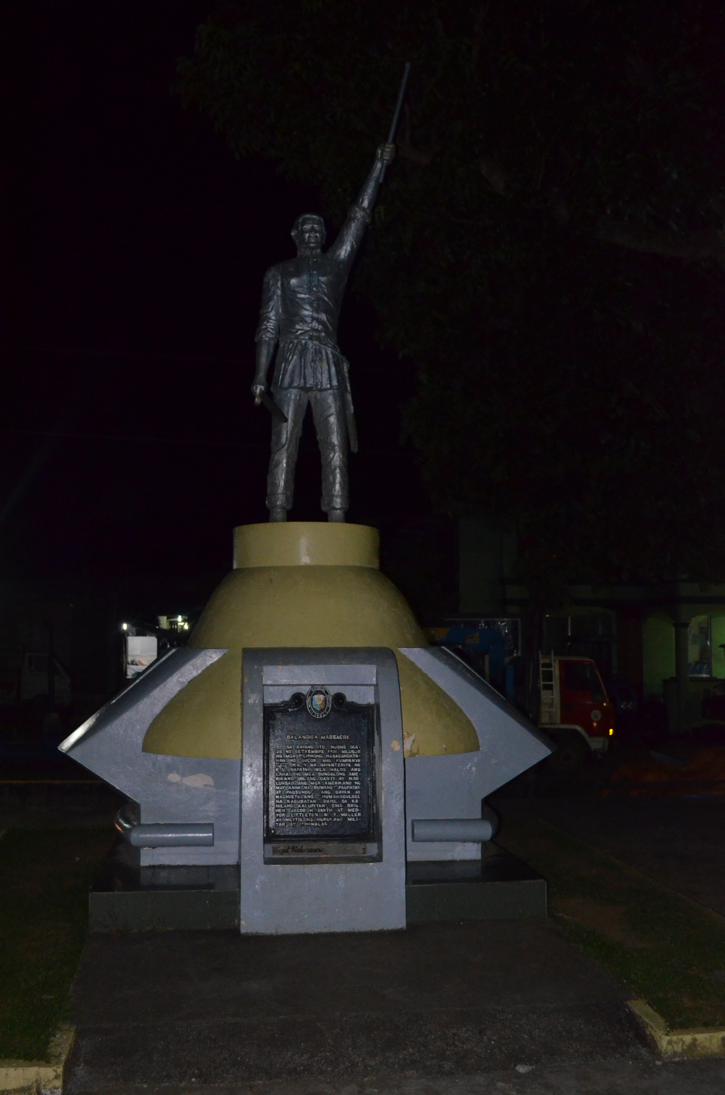 Valeriano Abanador statue in memory of the Balangiga massacre